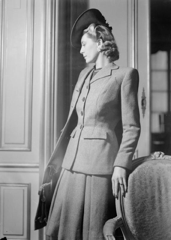 London Fashion Designers- the work of Members of the Incorporated Society of London Fashion Designers, London, England, UK, 1945 A model wears a brown and beige all-wool checked suit by fashion designer Hardy Amies. She is wearing a matching coat. An angled hat completes the outfit.